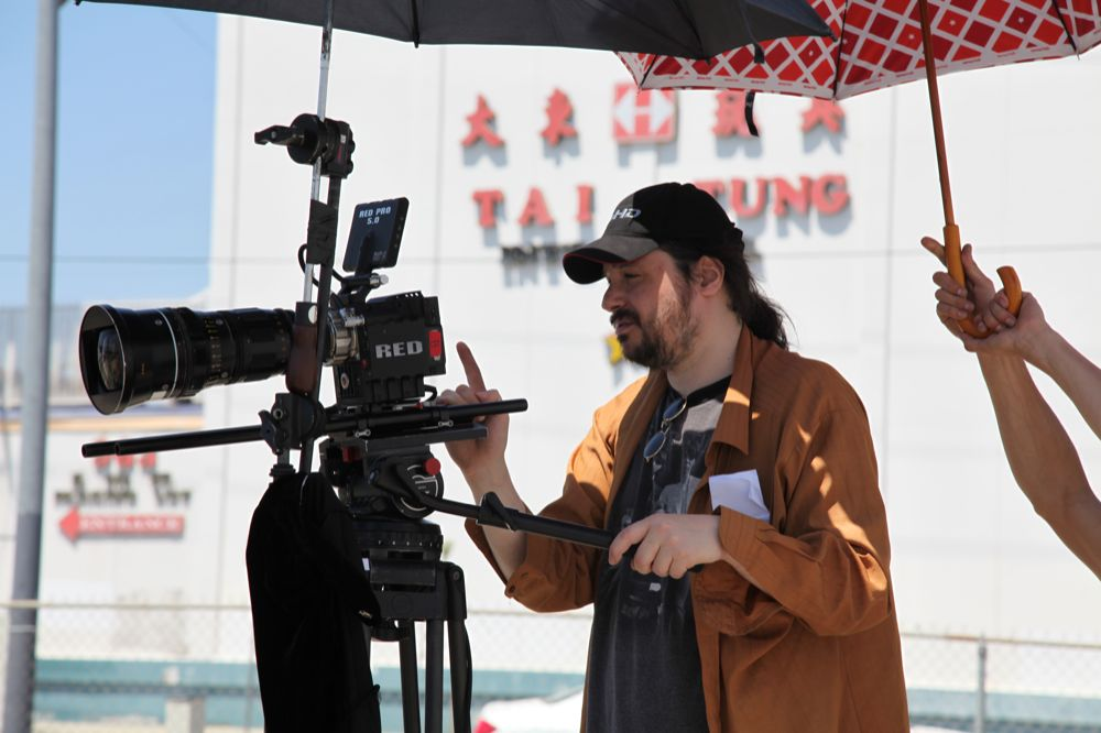 Milos Twilight Shooting "Fallen Angels" in Hong Kong.